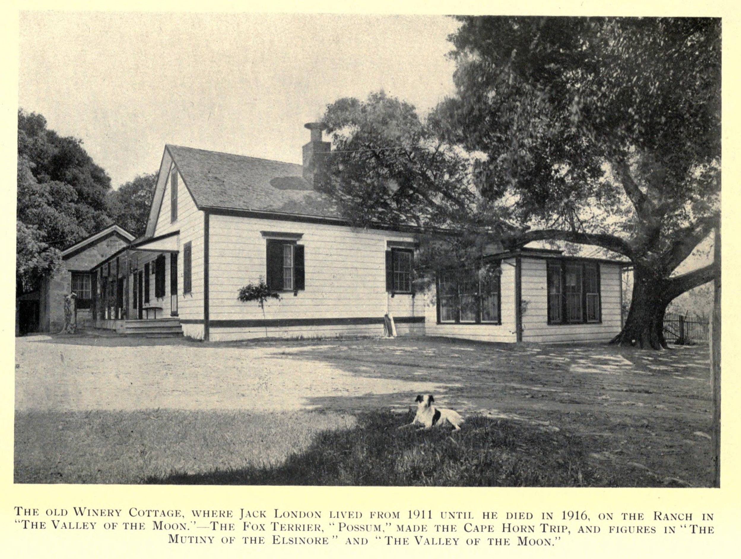 The old Winery Cottage where author Jack London lived from 1911 to his death in 1916. Jack London State Historic Park, Glen Ellen, California.